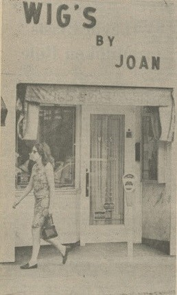 Wigs By Joan. 18 1/2 North Washington Street. July 1969.